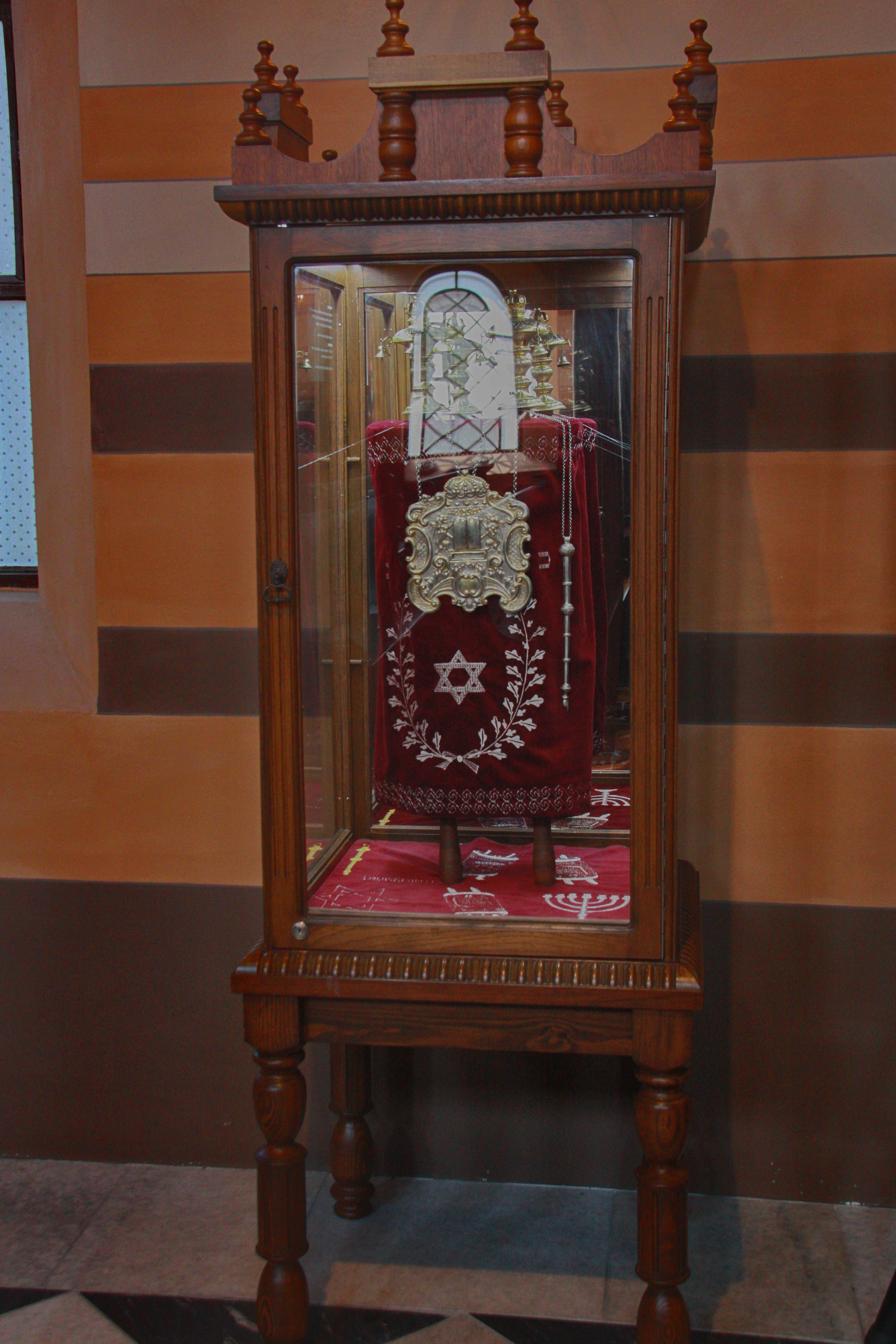 Interior of Krnov synagogue, Bruntál District, Moravian-Silesian Region, Czech Republic